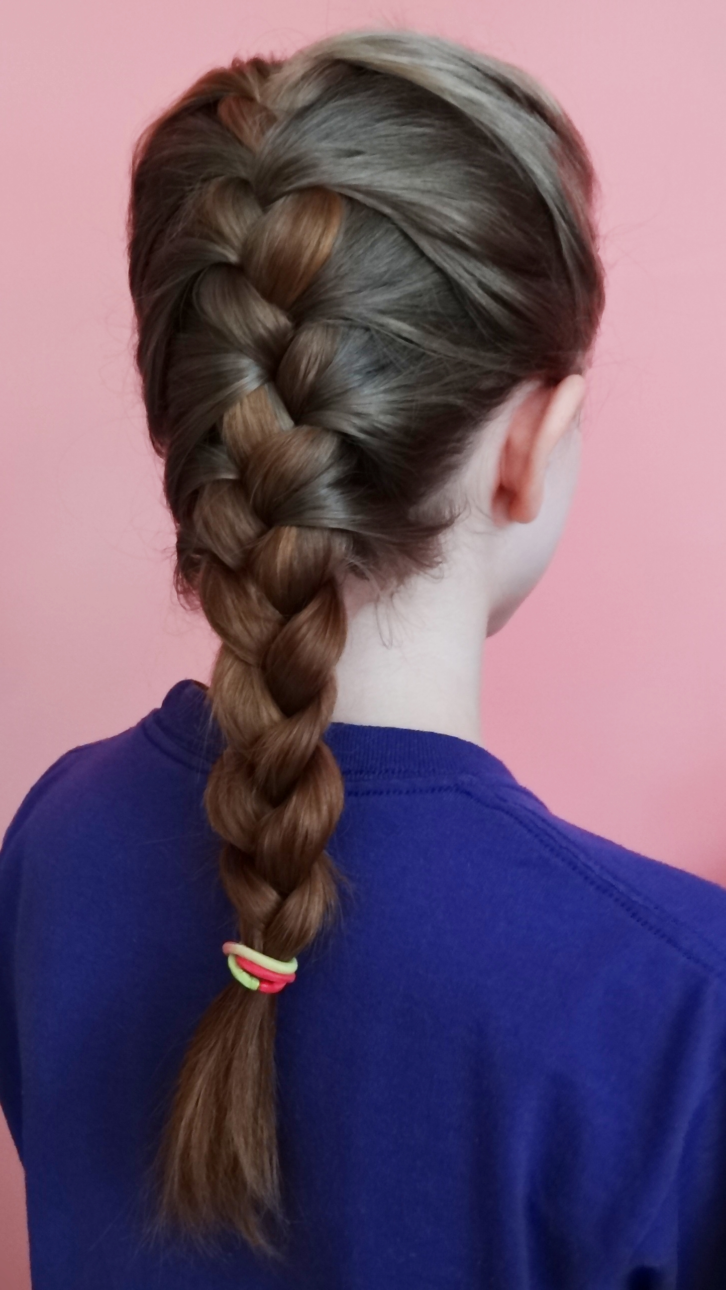 Classic French Braid, symmetrical and ending in regular braid.